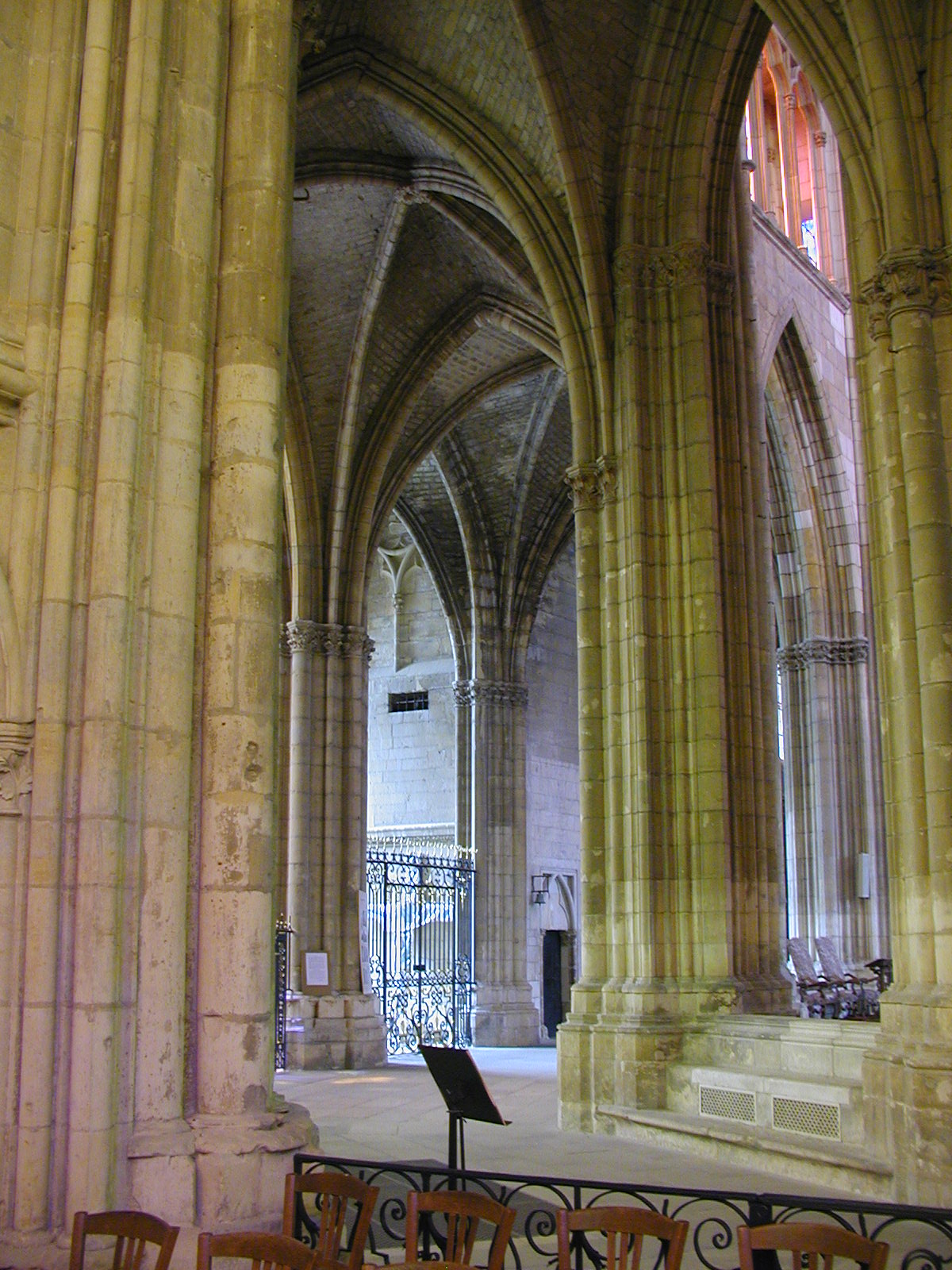 Nevers, Cathedrale, Ambulatory